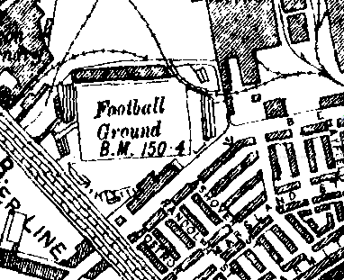 An Ordnance Survey map from 1909 showing Hyde Road, a former home ground of Manchester City F.C.